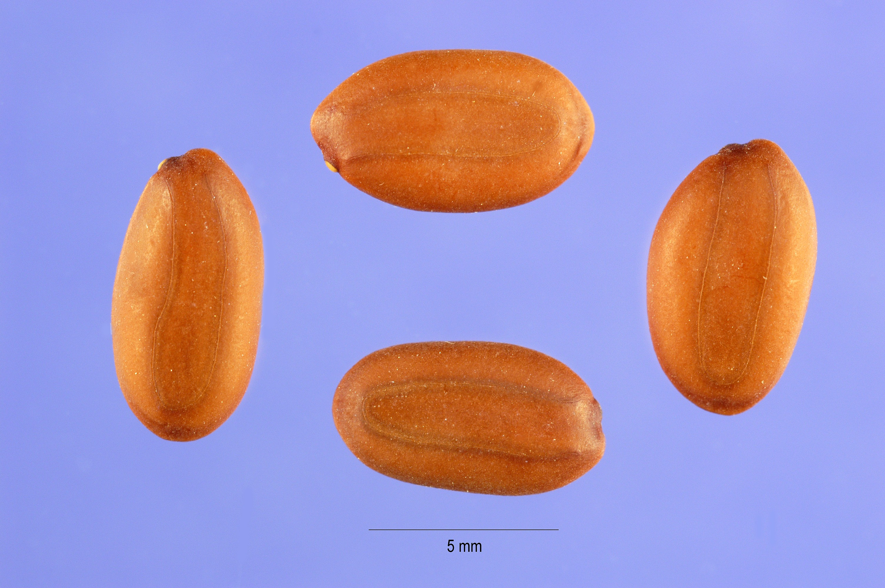 Silktree. Family Fabaceae. Seeds. Collected in Turkey